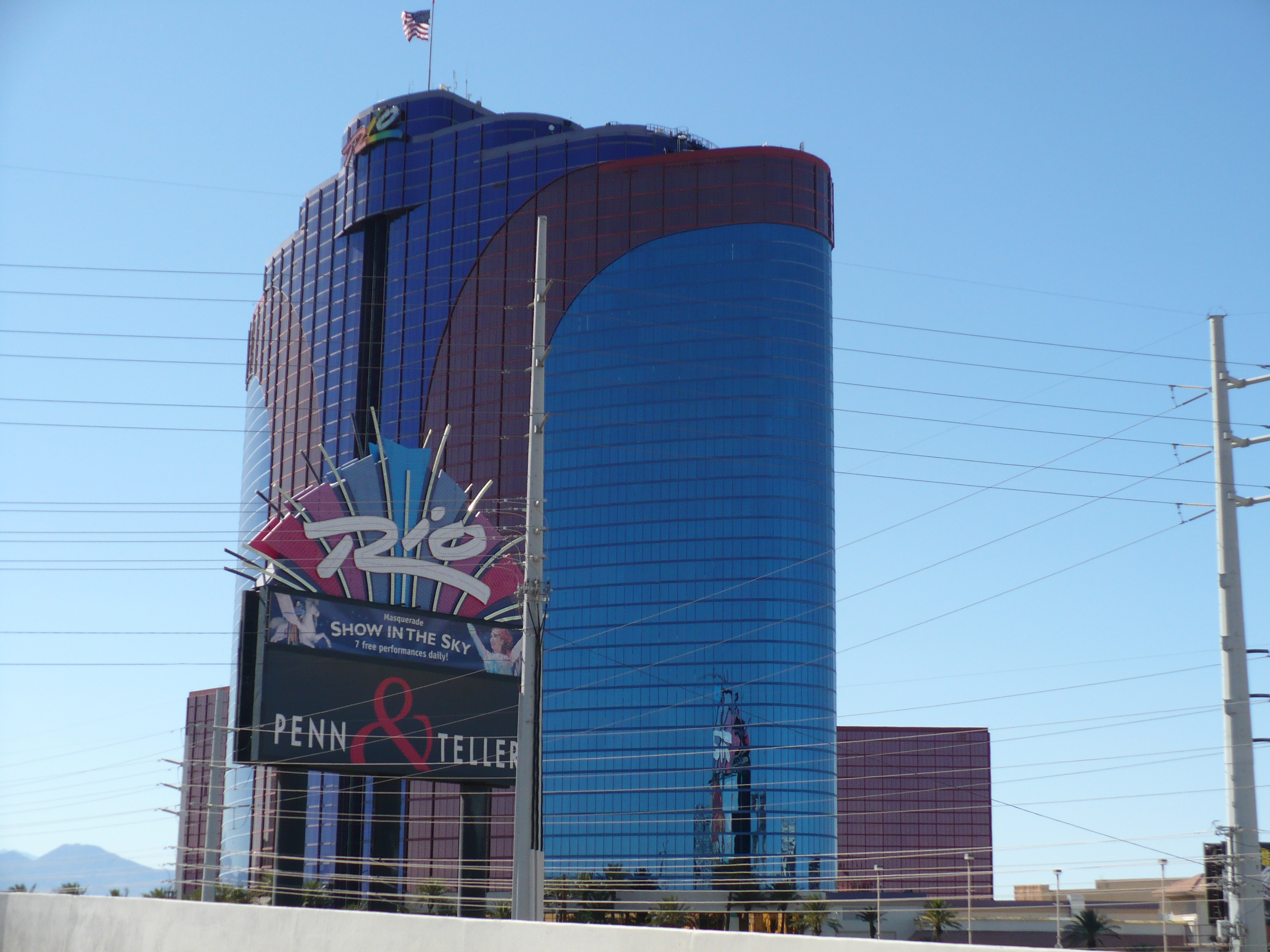 Rio with Penn & Teller sign.